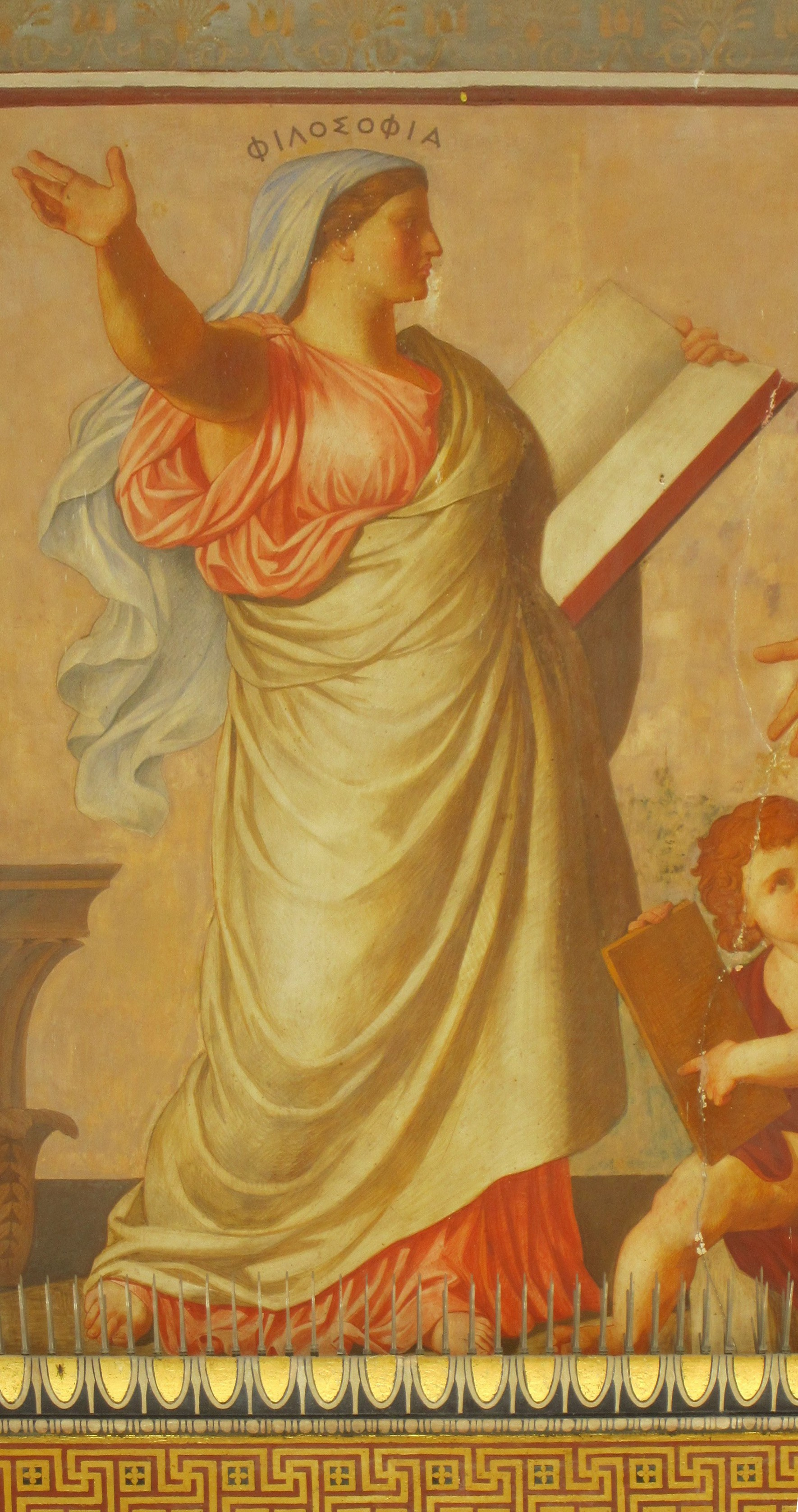 Personification of philosophy. Detail of center facade fresco. National and Kapodistrian University of Athens.